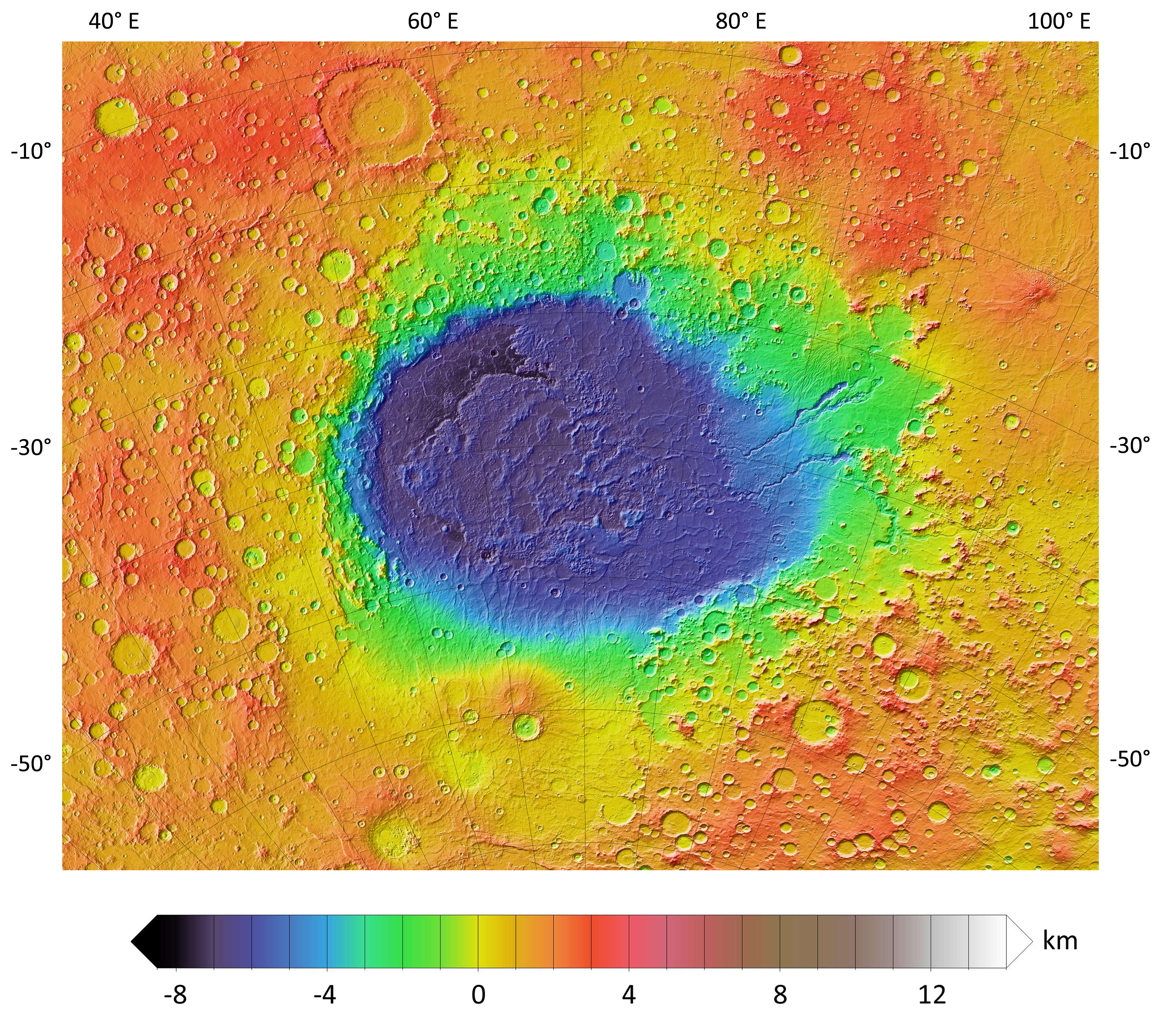 A colorized topographic map of the martian impact basin Hellas, together with its surroundings, from the Mars Orbiter Laser Altimeter (MOLA) instrument of the Mars Global Surveyor spacecraft. Hellas, the deepest basin on Mars, lies in the southern hemisphere, south of Syrtis Major Planum.